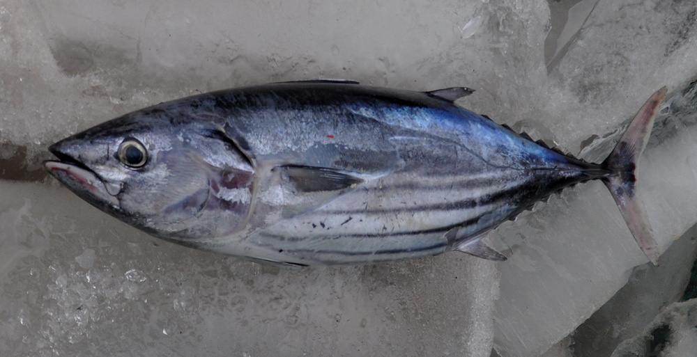 Skipjack tuna Katsuwonus pelamis, from Palabuhanratu, West Java.